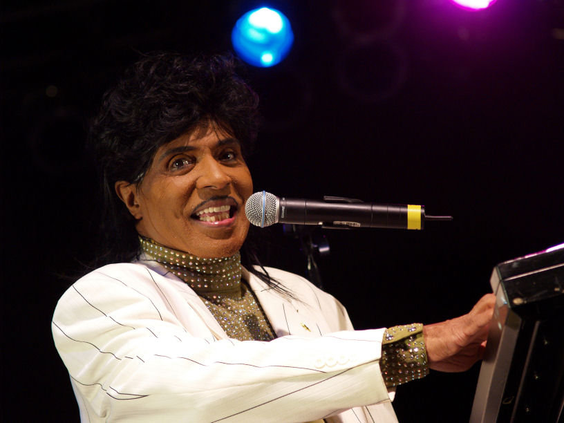 Little Richard performing at the University of Texas Forty Acres Festival in 2007.